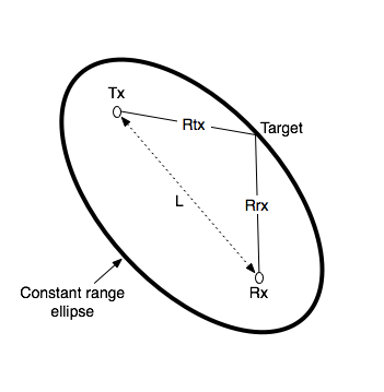 By Paul Howland. Illustration of bistatic range. By Paul Howland. Illustration of bistatic range.